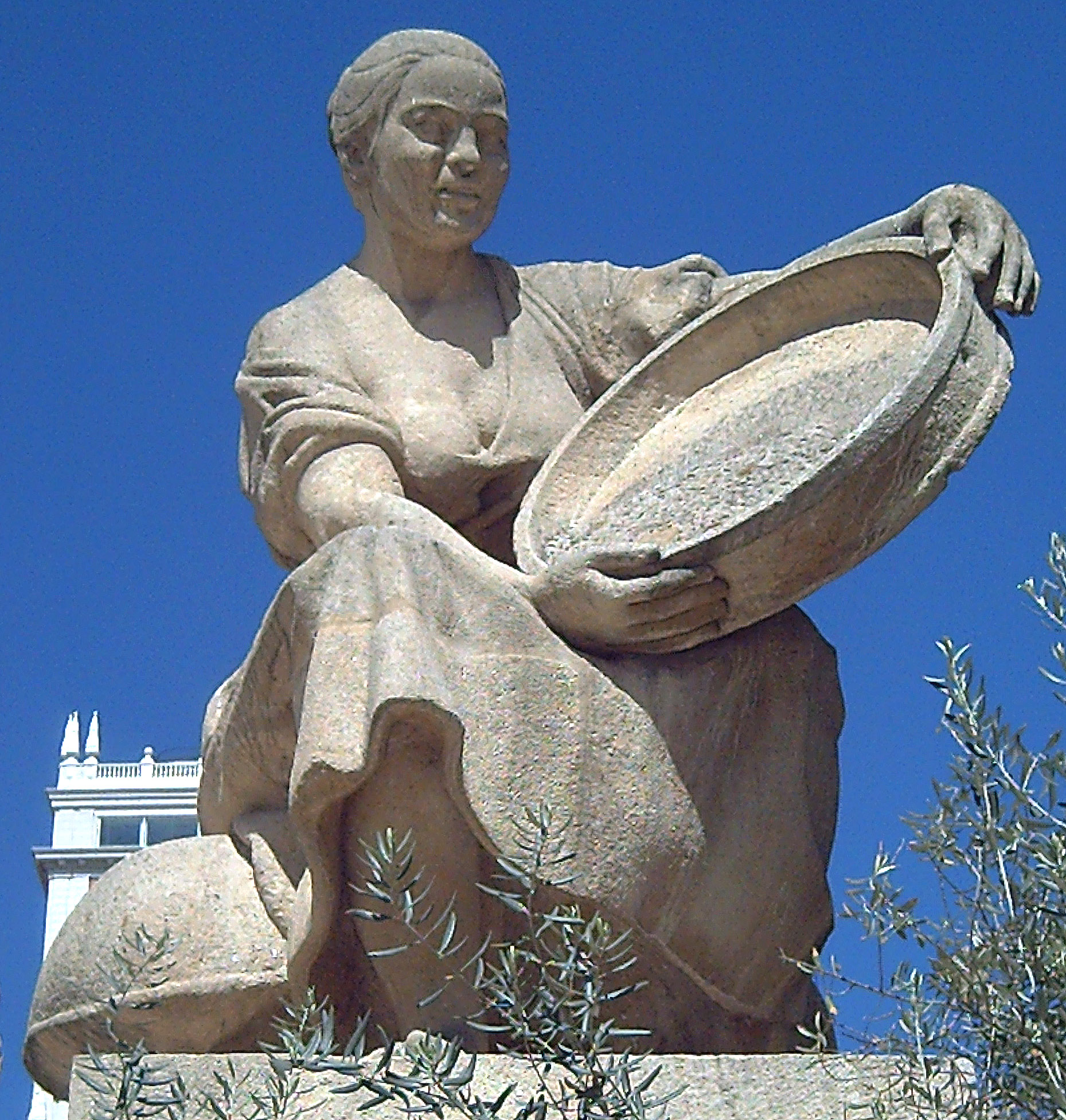 Stone statue of Aldonza Lorenzo sculpted by Federico Coullaut-Valera (1912–1989) in 1956–57. 2.90 metres high. Detail of the monument to Cervantes (1925–30, 1956–57) at the Plaza de España ("Spain Square") in Madrid. See also Dulcinea del Toboso (Don Quixote's idealization of Aldonza Lorenzo).